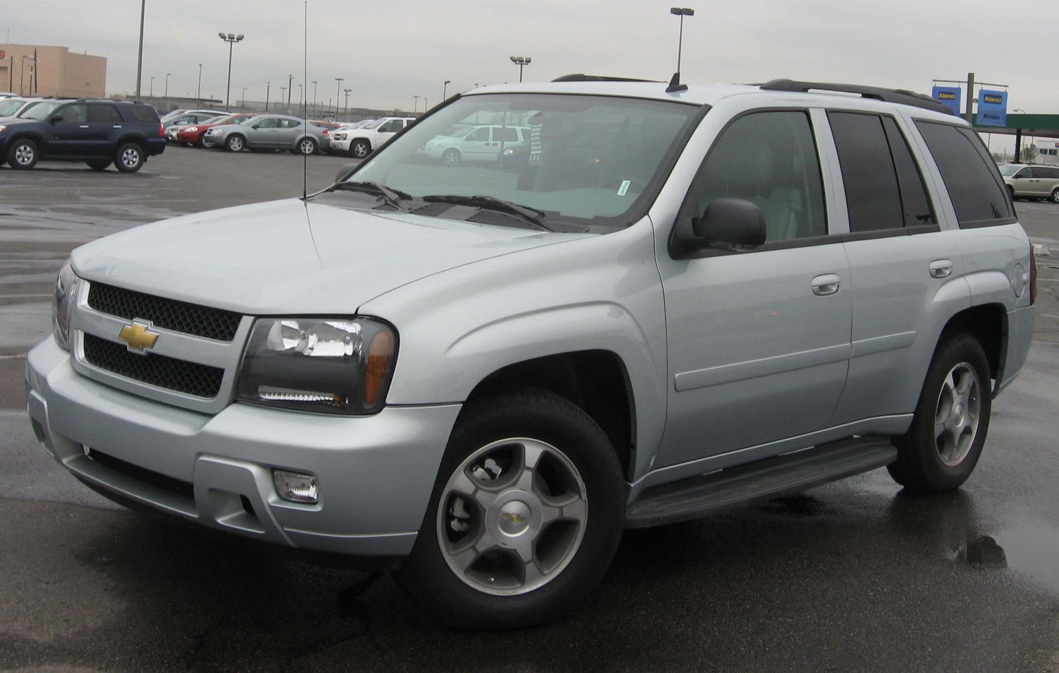 2006-2008 Chevrolet TrailBlazer photographed in Romulus, Michigan, USA.